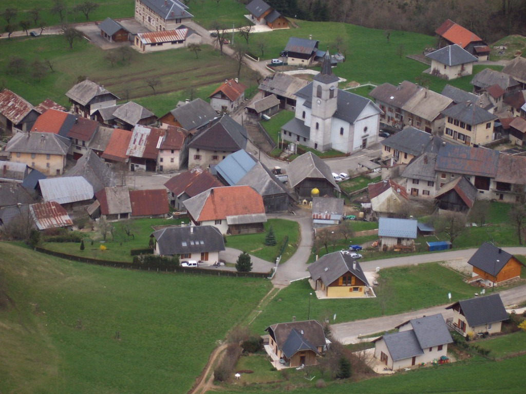 village of La Compote (Savoie - France) Photo: B.navez - AVR 2005